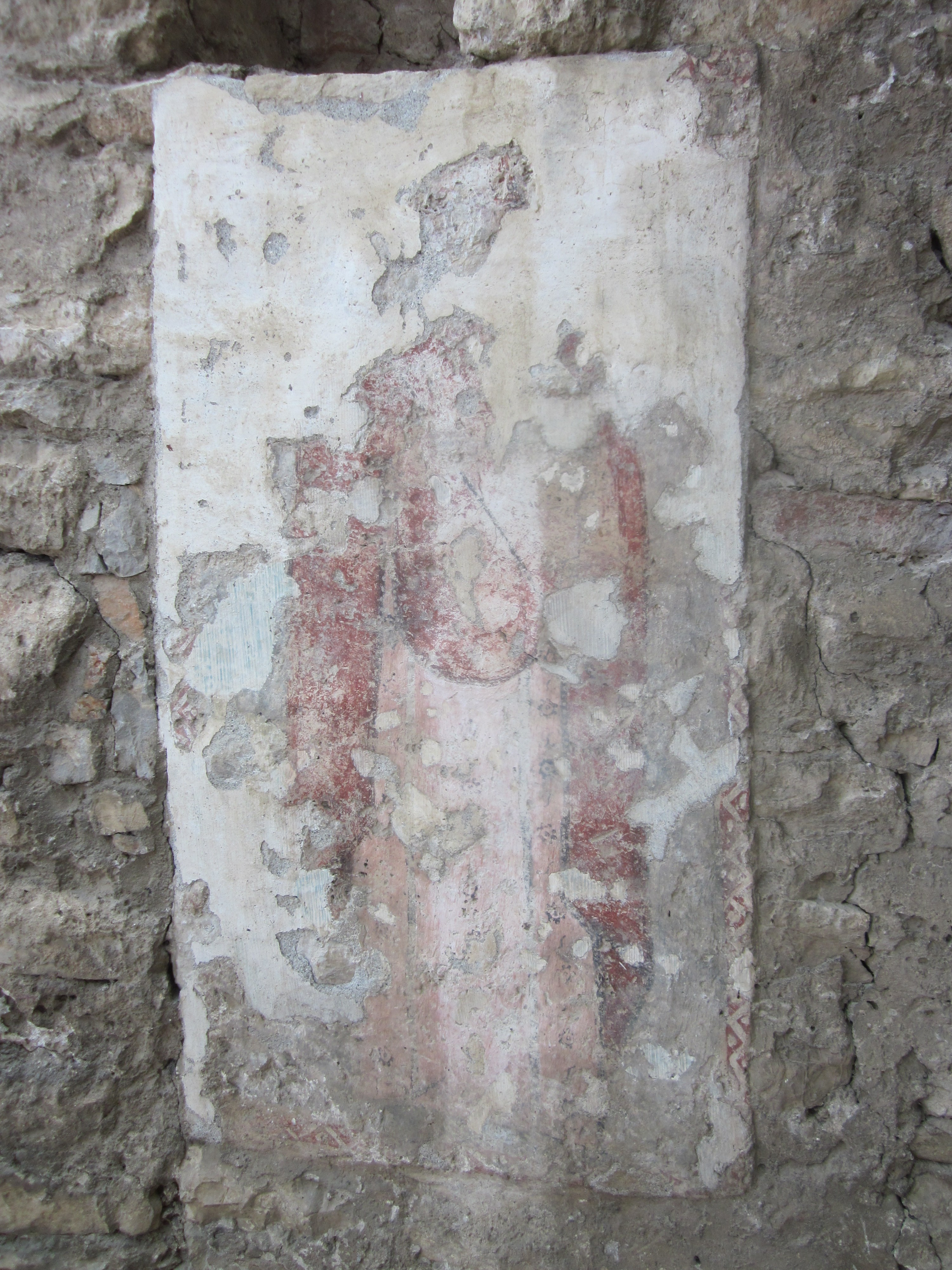 Fresco of Saint Nicholas in the former Saint Nicholas Church in Lezhë, Albania. The church is now a mausoleum for national hero Skanderbeg. The fresco has suffered from over 500 years of neglect.